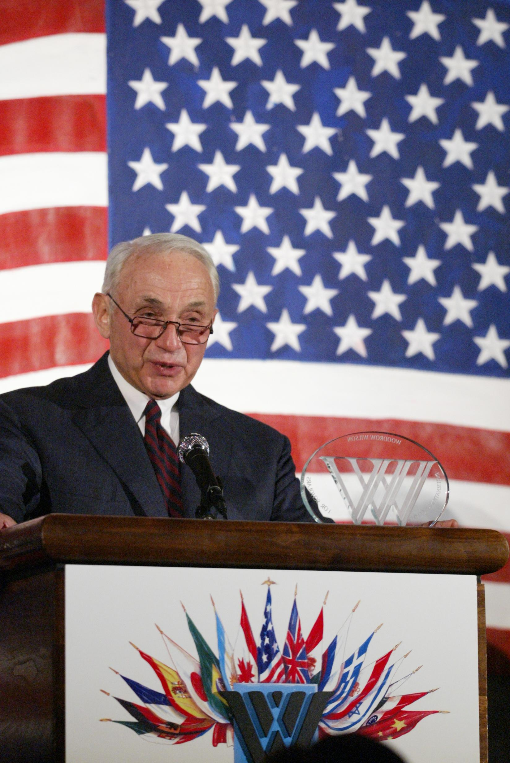 Leslie Wexner speaking Woodrow Wilson Award ceremony